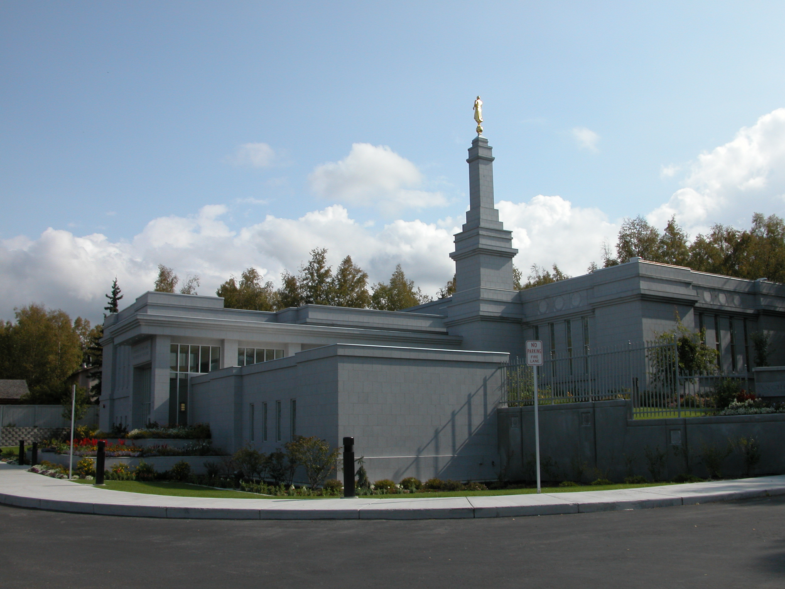 The Anchorage Alaska Temple of Template:The Church of Jesus Christ of Latter-day Saints.